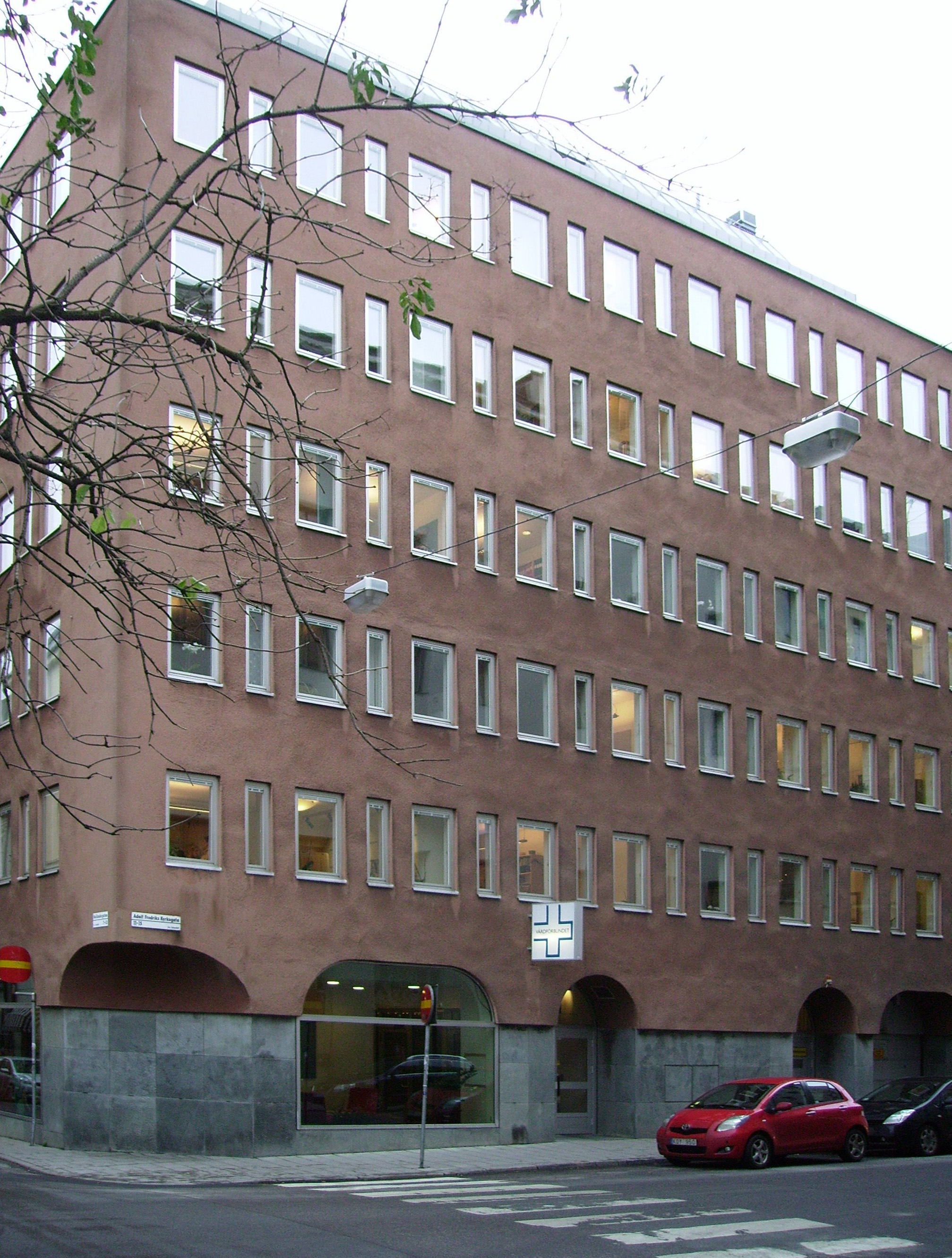 Vårdförbundet in Stockholm. Built 1975.